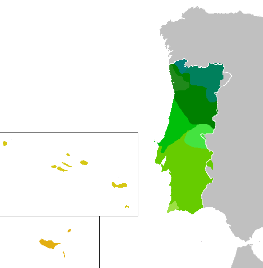 European dialect map of Portuguese language.